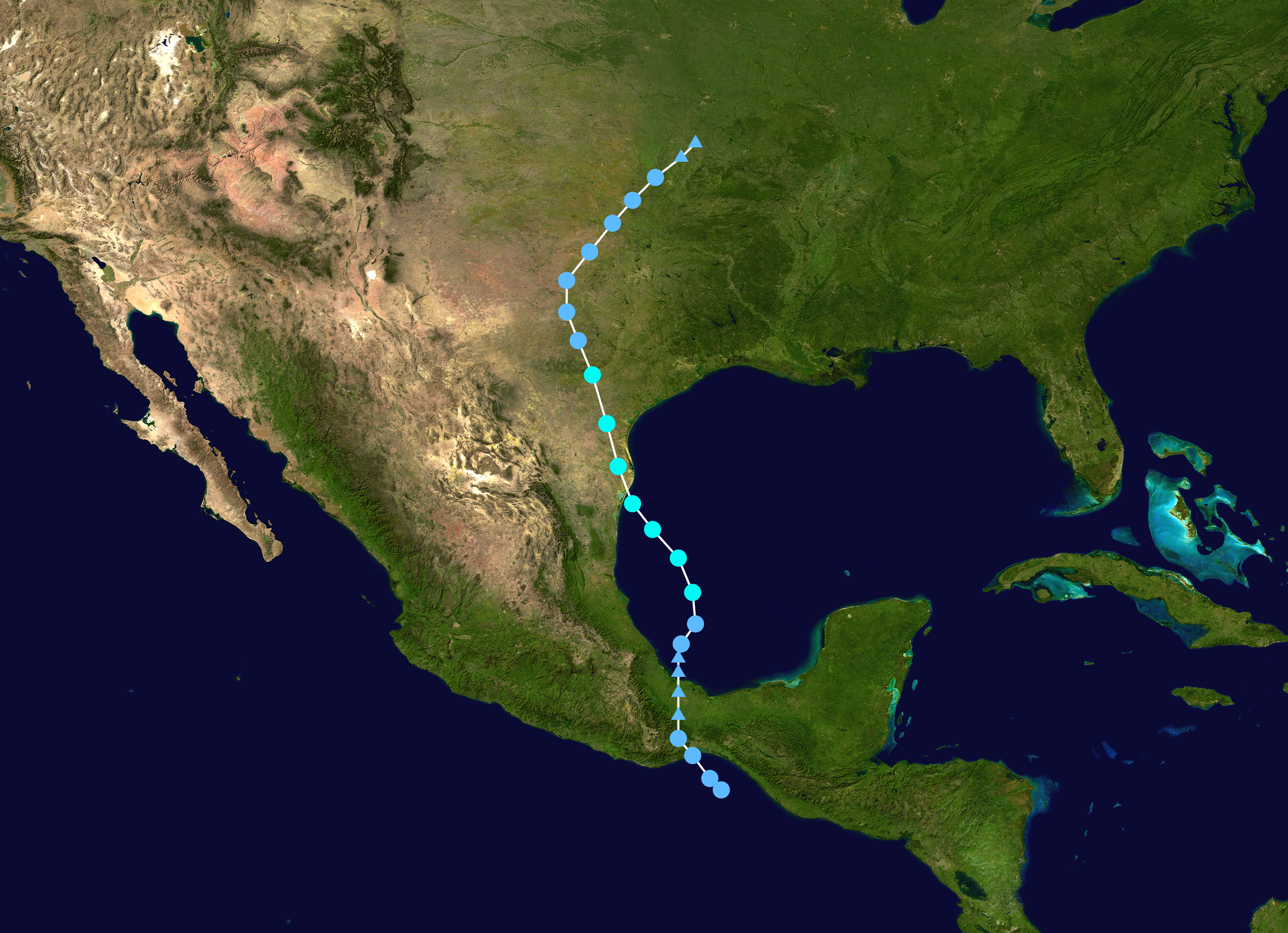 Track map of Tropical Storm Hermine of the 2010 Atlantic hurricane season. The points show the location of the storm at 6-hour intervals. The colour represents the storm's maximum sustained wind speeds as classified in the Saffir–Simpson scale (see below), and the shape of the data points represent the nature of the storm, according to the legend below. Saffir–Simpson scale Tropical depression≤38 mph≤62 km/h Category 3111–129 mph178–208 km/h Tropical storm39–73 mph63–118 km/h Category 4130–156 mph209–251 km/h Category 174–95 mph119–153 km/h Category 5≥157 mph≥252 km/h Category 296–110 mph154–177 km/h Unknown Storm type Tropical cyclone Subtropical cyclone Extratropical cyclone / Remnant low / Tropical disturbance / Monsoon depression